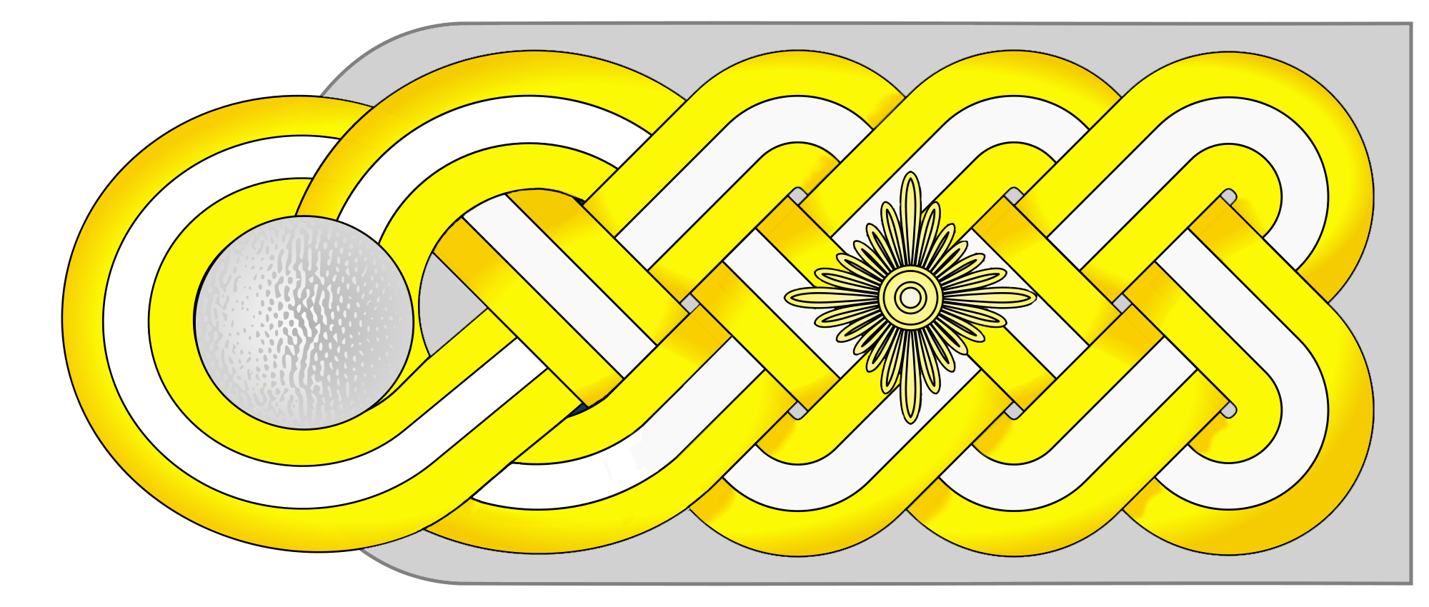 Rang insignia shoulder strap, here “SS-Gruppenfuehrer and Lieutenant general of the Waffen-SS” (today comparable to NATO OF-7) until 1945.